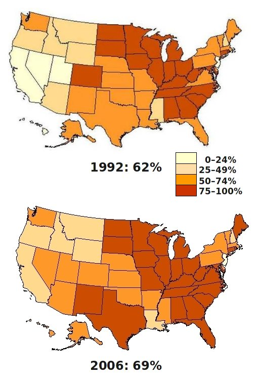 U.S. residents served with community water fluoridation, 1992 and 2006 The percentages are the proportions of the resident population served by public water supplies who are receiving water that is optimally fluoridated for the prevention of dental caries (cavities). The original commentary for this figure was "Water fluoridation has increased from 62% in 1992 to 69% in 2006, and a greater percentage of Americans are served by fluoridated water systems. Increase in bottled water consumption in recent years, however, may offset potential protection from fluoridated tap water." The figure also said that the 2010 target was 75%.